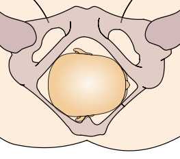 The left occipito-anterior variant of cephalic presentation